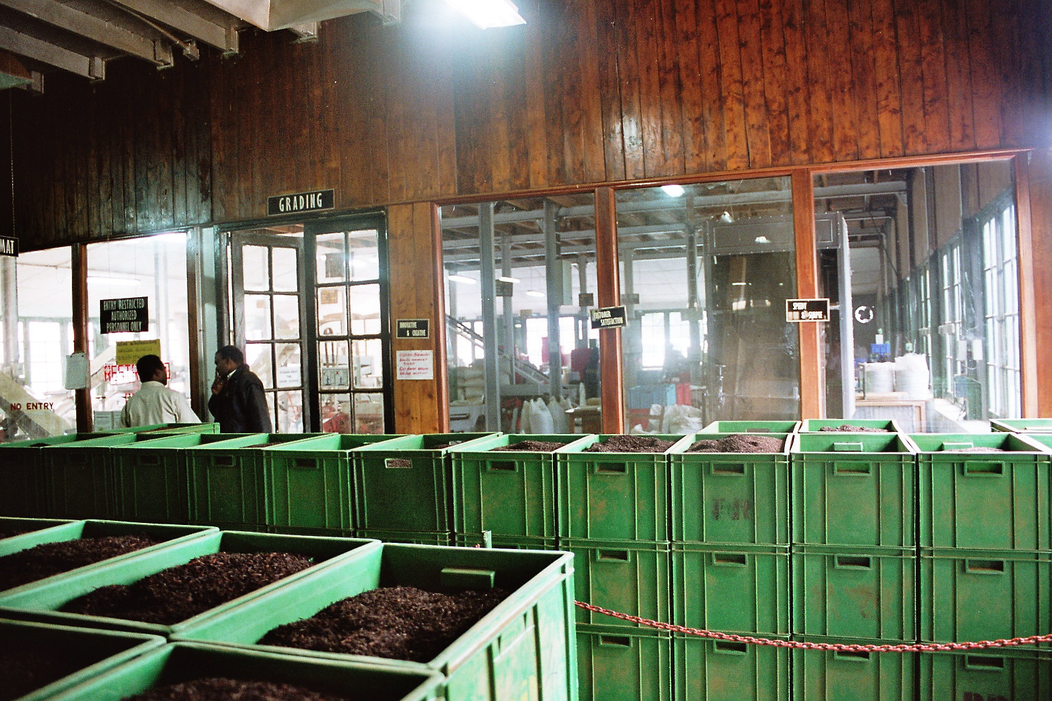 Tea factory in the highlands of Sri Lanka